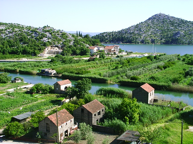 Neretva River delta in southern Croatia